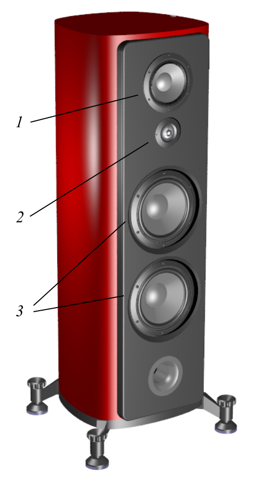 Electrodynamic loudspeaker